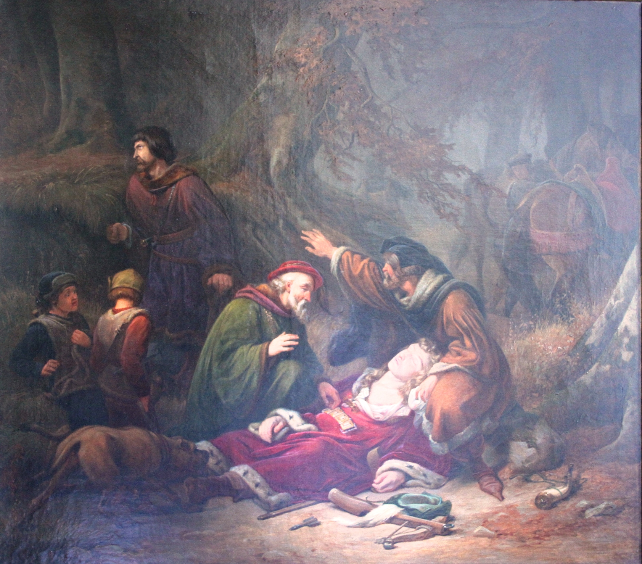 Christian Emil Andersen's painting of the Death of Valdemar the Young. He died in a shooting accident during hunting at Refsnæs in Denmark.